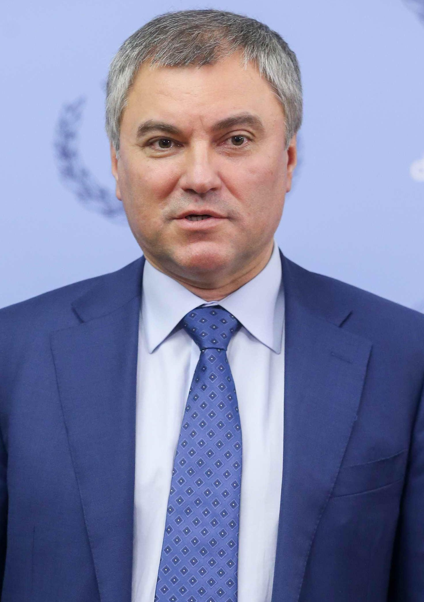 State Duma Speaker Vyacheslav Volodin